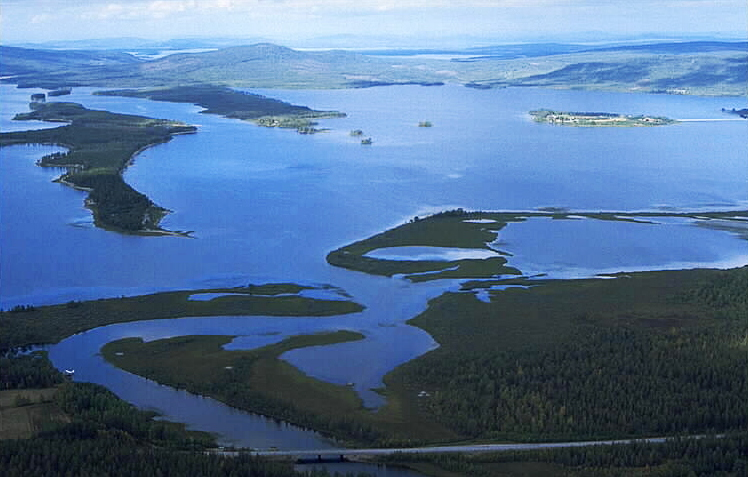 The lake Purkijaure - modern spelling Burgávrre - in Jokkmokk municipality, Norrbotten county, Sweden